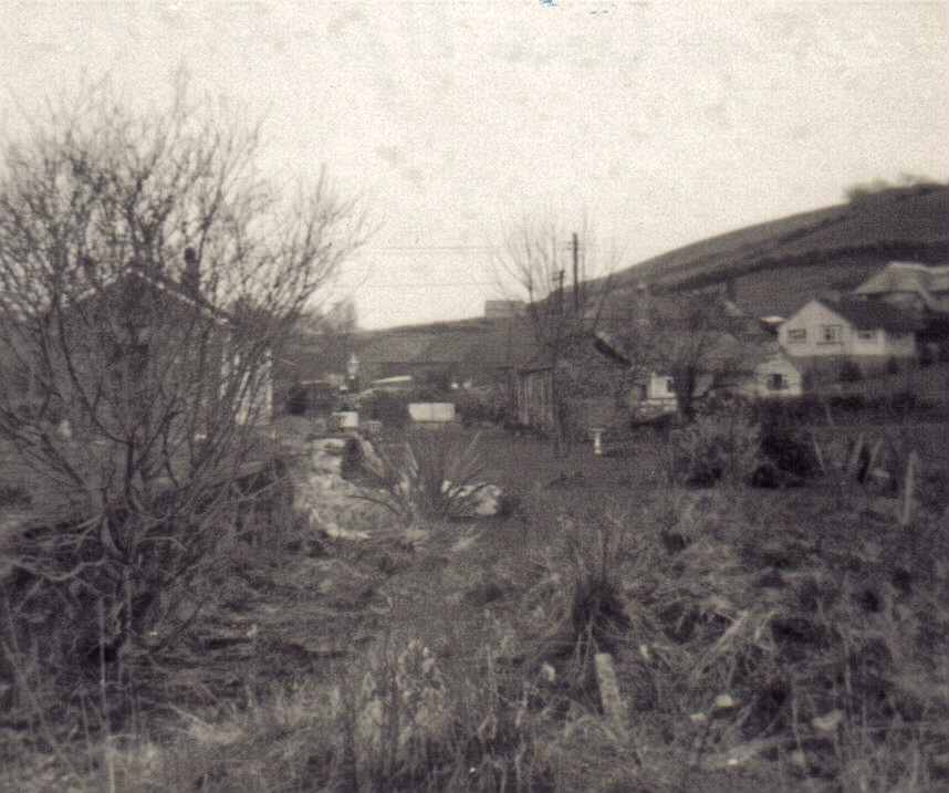 Ruins of Ashton station in 1970, Devon, England